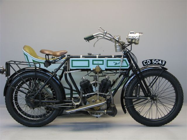 BAT 8 HP 1000 cc motorcycle with JAP SV engine from 1912